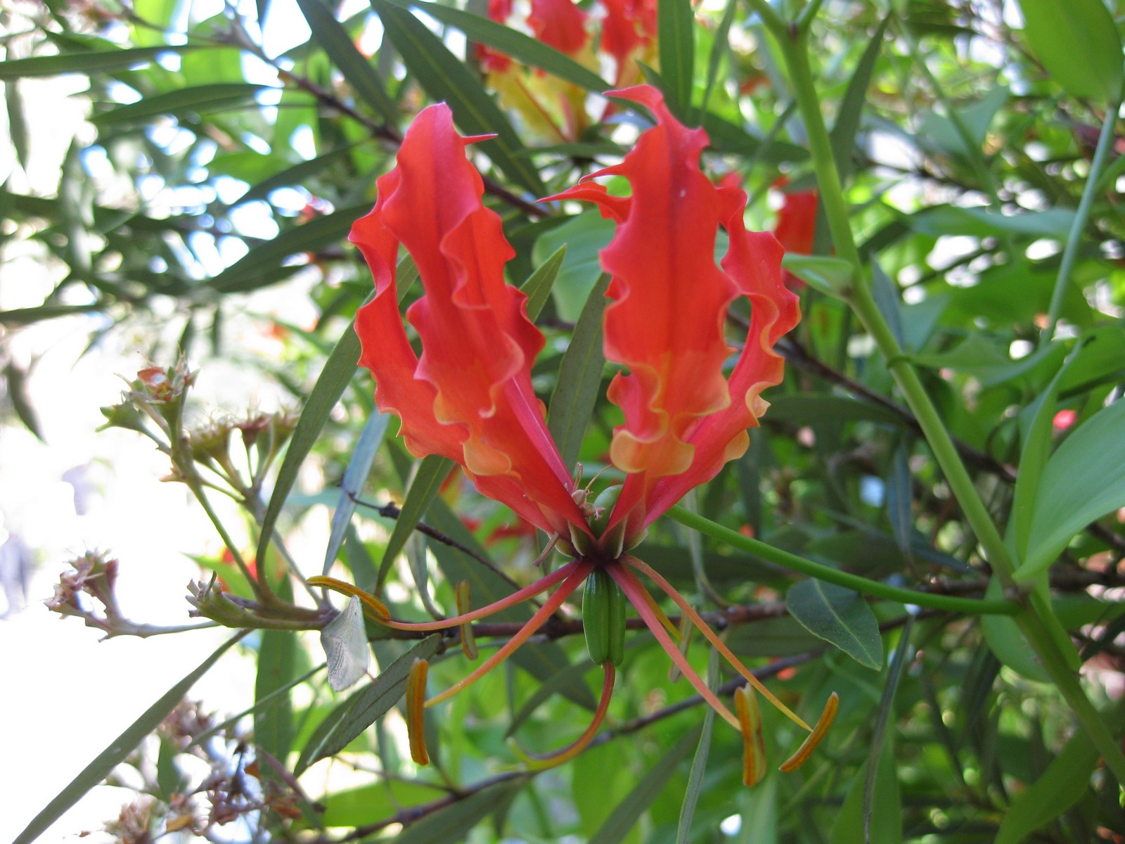 Photographed at the Royal Botanic Gardens Sydney (Australia) in December